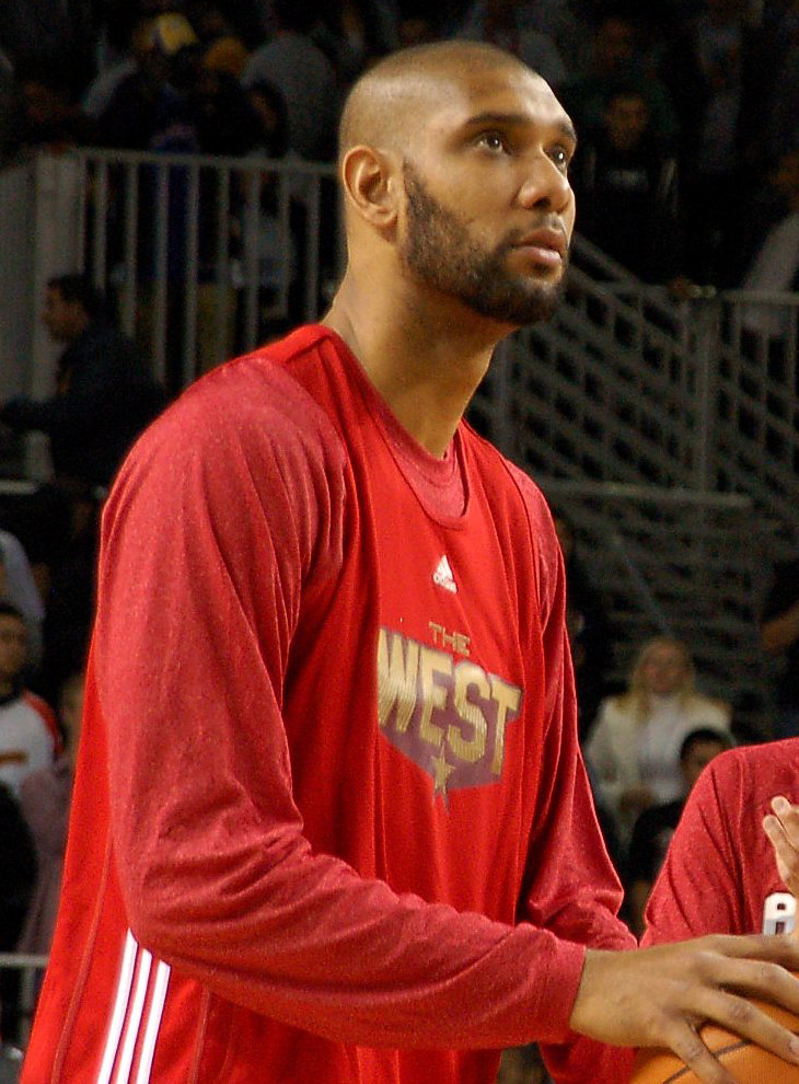 Tin Duncan